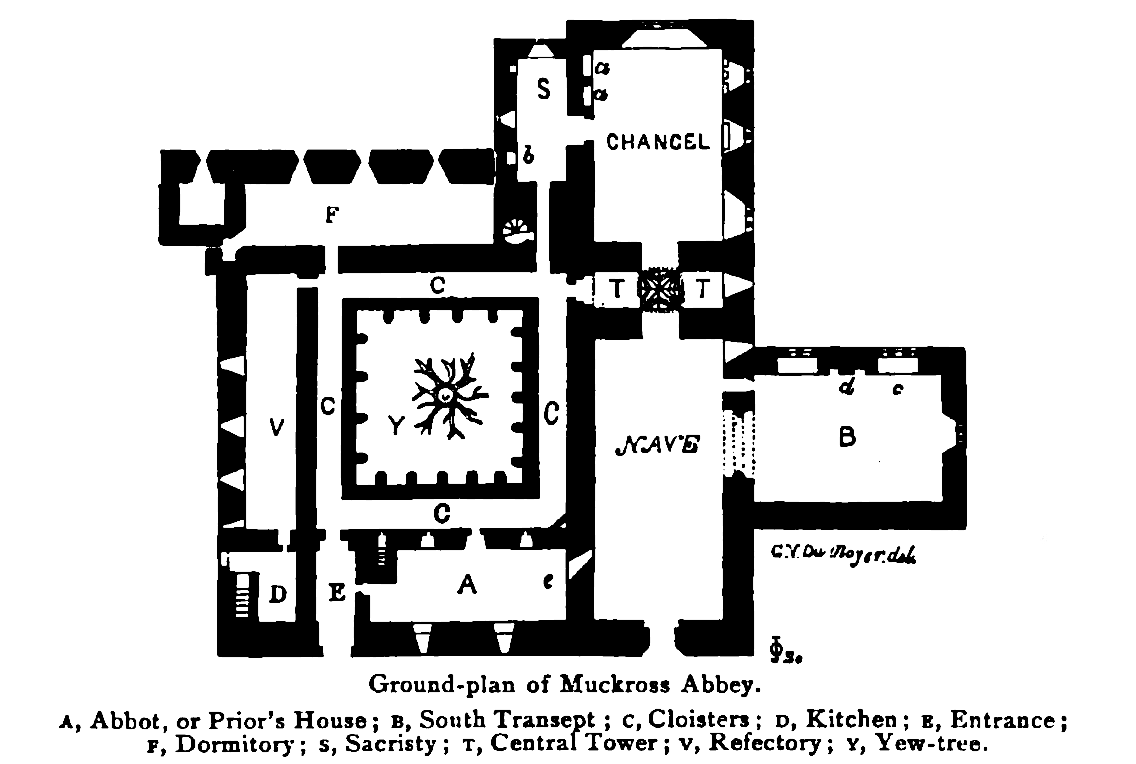 Ground-plan of Muckross Abbey in Killarney Journal of the Royal Society of Antiquaries of Ireland, Volume 2. 1892.